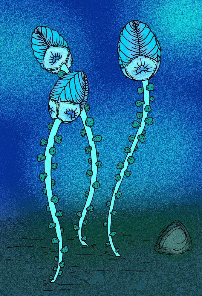 Reconstruction of the Precambrian organism Ventogyrus chistyakovi as a benthic creature.